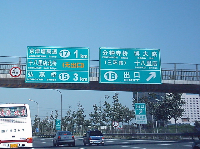 New 4th Ring Road Signs (1). DF08 2004 image.